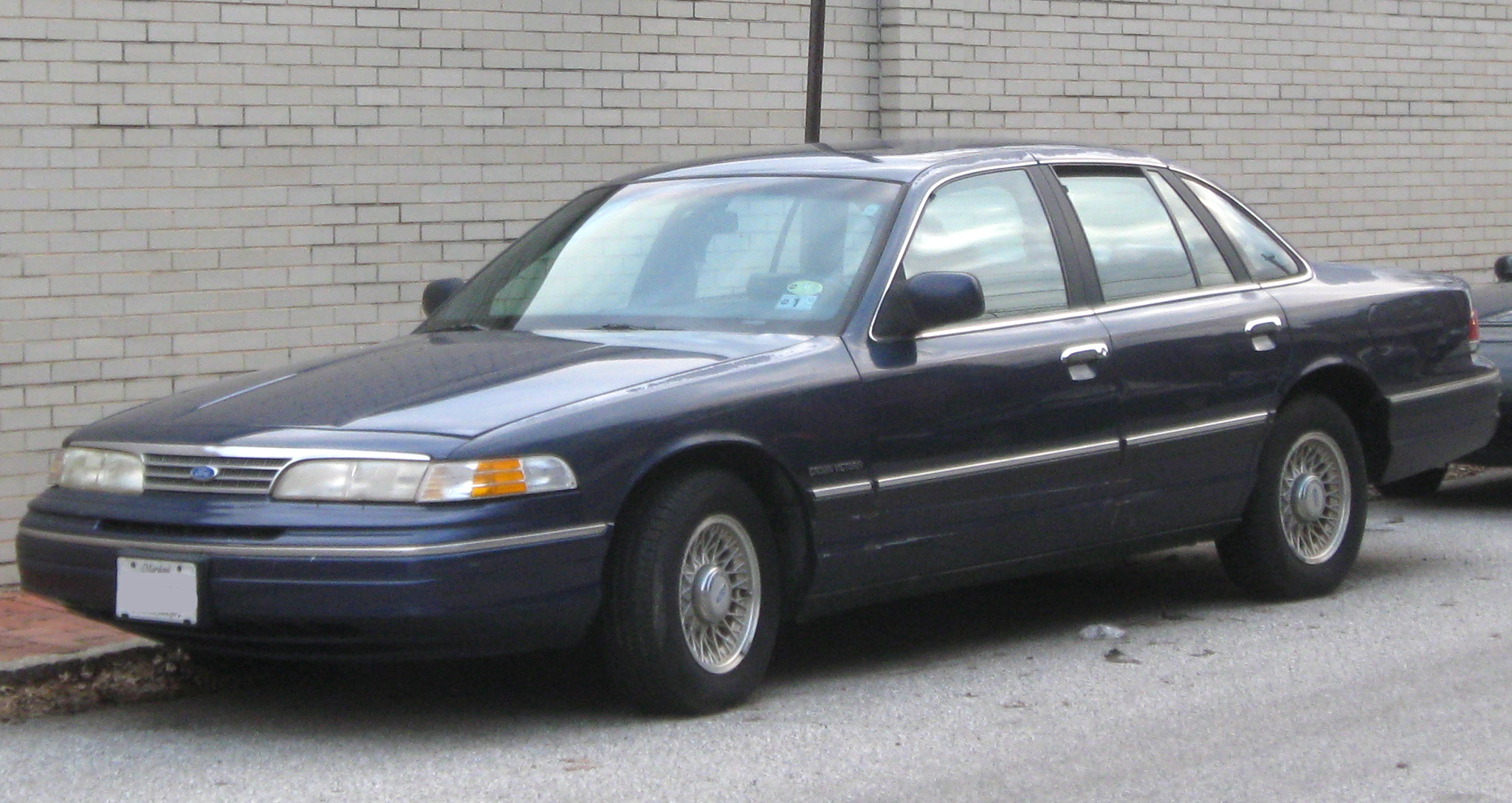 1993-1994 Ford Crown Victoria photographed in Annapolis, Maryland, USA.